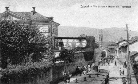 Druento, incoming steam tramway